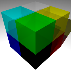 Diagram of an octree node, rendered by me in POV-Ray.